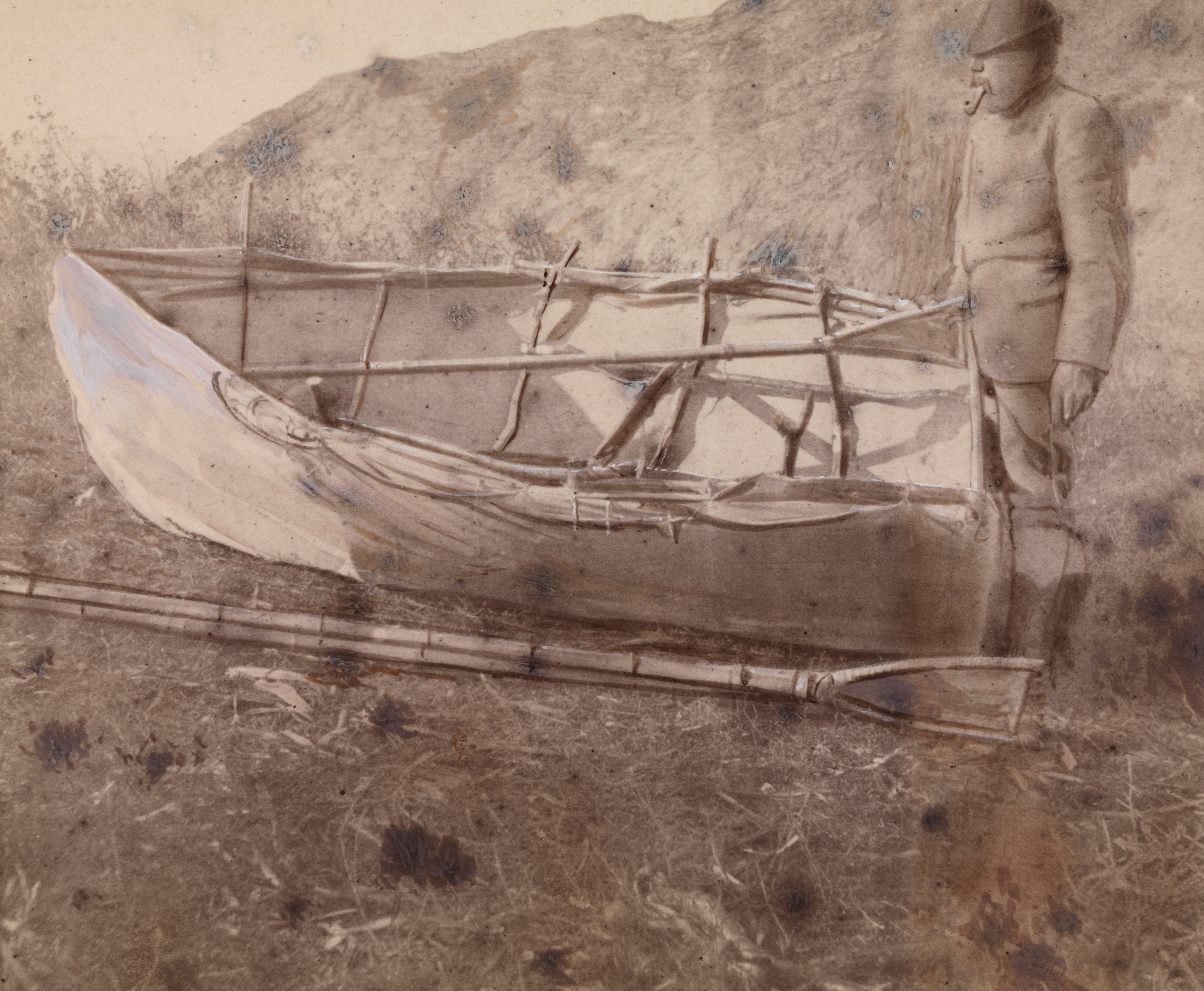 Otto Neumann Knoph Sverdrup next to the canvas boat that he made together with Fridtjof Nansen from the materials available. The boat was to be used to notify the waiting ship «Fox», as quickly as possible, of the expedition's arrival on the west coast. One of the pictures from the expedition to Greenland in the period July 1888 to May 1889. Fridtjof Nansen together with 5 other Norwegian participants crossed Greenland in the course of a 42-day skiing trip from the east to the west coast.